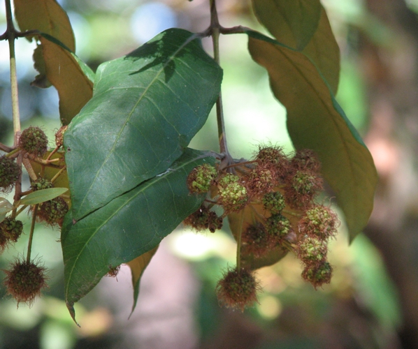 Choricarpia leptopetala (cultivated, labelled) Royal Botanic Gardens, Melbourne